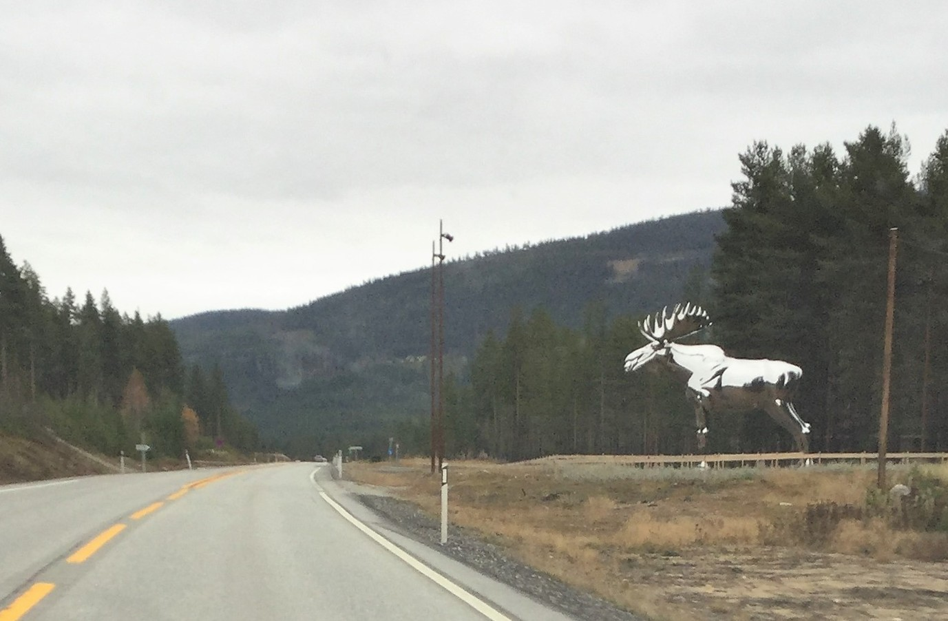 The sculpture Storelgen ('The giant moose') along Riksvei 3 in Stor-Elvdal, Norway